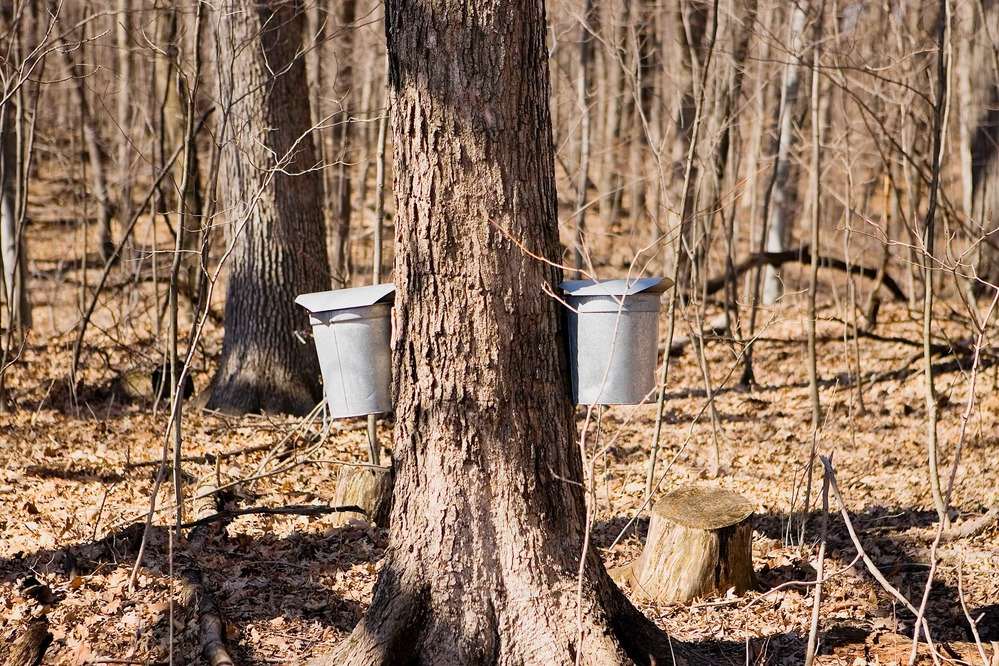 This is a picture of Sap buckets on maple trees in the Indiana Dunes National Park, the United States.